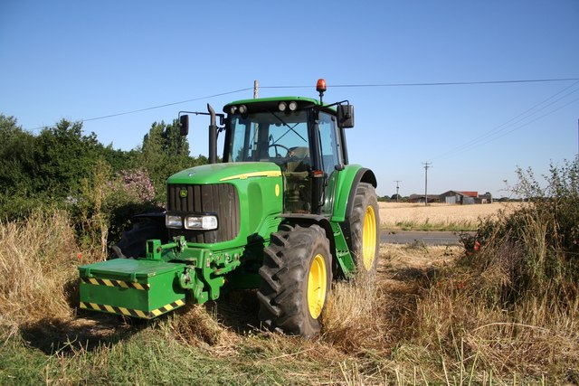 21st century workhorse. John Deere tractor off Wiglsey Road, Harby, Nottinghamshire, UK